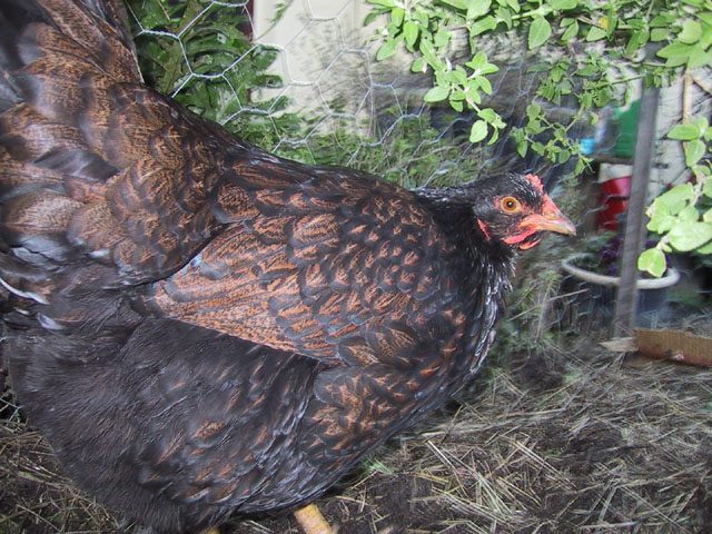 Barnevelder Hen. Photo by Morgan Leigh morgan at wirejunkie dot com